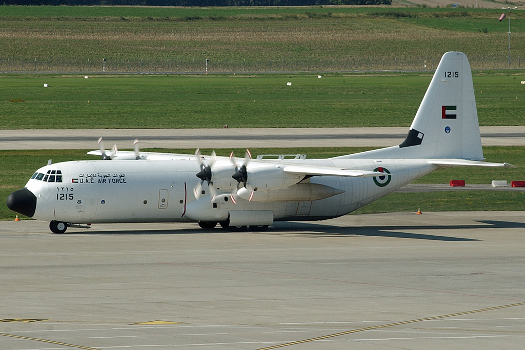 1215 Lockheed L-100-30 Hercules of the UAE Air Force at Geneva on Sep 2, 2003.